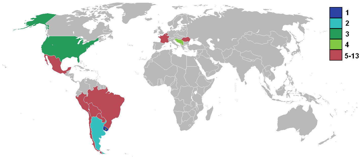 1930 FIFA World Cup, derived from Image:File:BlankMap-World_1935.png and Image:1930 world cup.png, countries qualified (red), showing: 1st (dark blue) 2nd (light blue) 3rd (dark green) 4th (light green) Round 1 (red) Yellow square is host nation.